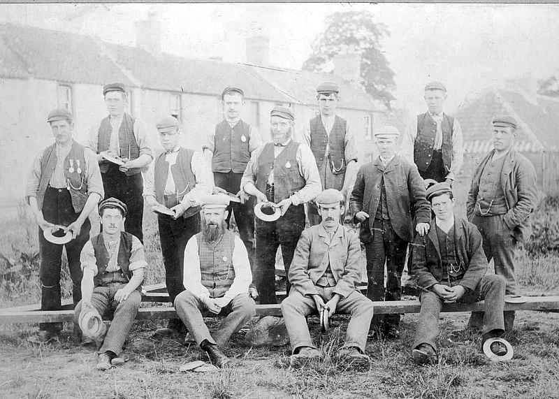 A group of quoits (tejo) players at Rosario A.C.